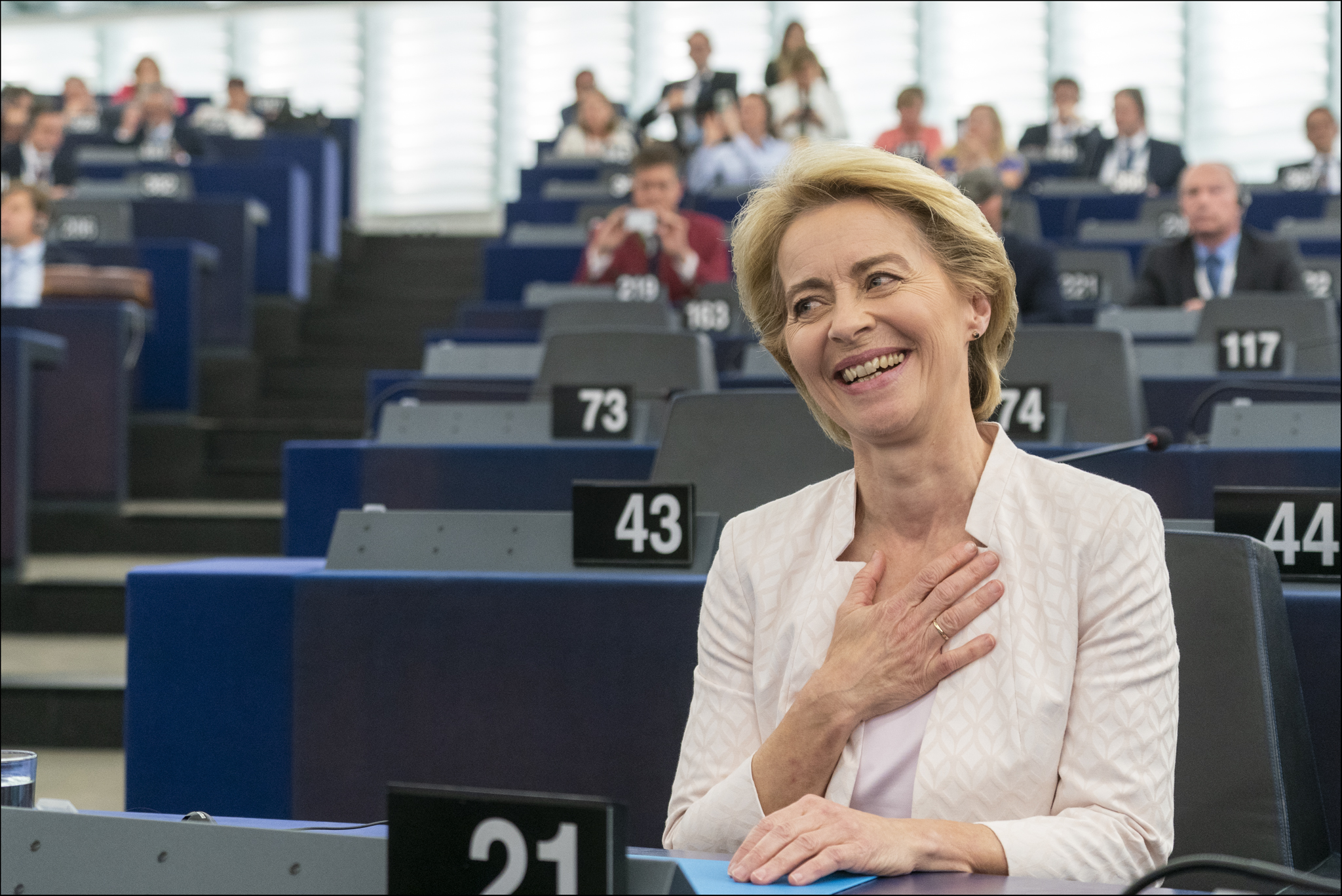 With 383 votes in favour, the European Parliament elected Ursula von der Leyen President of the next European Commission in a secret ballot on 16 July. She is set to take office on 1 November 2019 for a five-year term. There were 733 votes cast, one of which was not valid. 383 members voted in favour, 327 against, and 22 abstained. Parliament currently comprises 747 MEPs as per the official notifications received by member state authorities, so the threshold needed to be elected was 374 votes, i.e. more than 50% of its component members. President Sassoli formally announced the requisite number before the results were revealed in plenary. The vote was held by secret paper ballot. Read more: This photo is free to use under Creative Commons license CC-BY-4.0 and must be credited: "CC-BY-4.0: © European Union 2019 – Source: EP". No model release form if applicable. For bigger HR files please contact: webcom-flickr(AT)